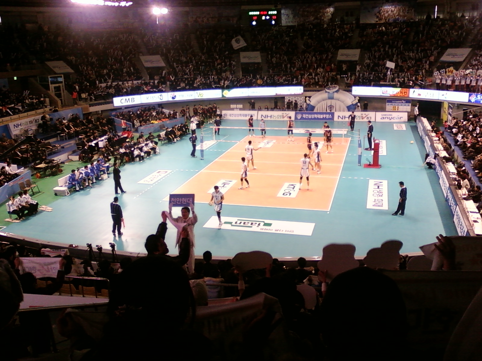 2009-2010 V-League round 3 was played in Daejeon Chungmu Gymnasium. Daejeon Samsung Blue Fangs vs. Cheonan Hyungdai Capital Sky Walkers, 2010-01-01